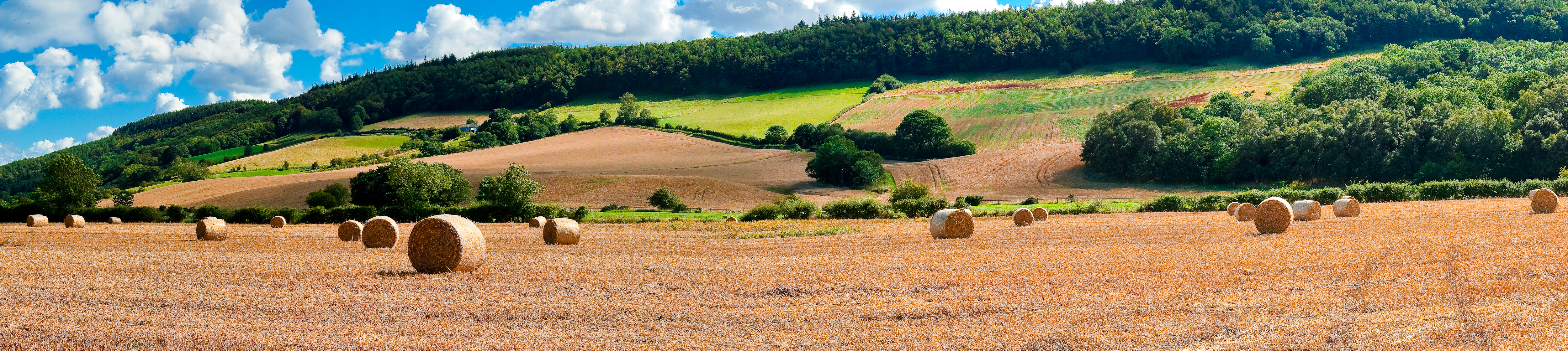 Become a fan on facebook